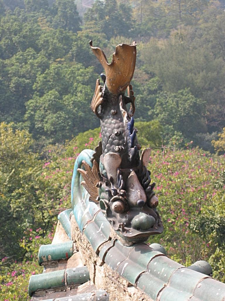 China, Guanzhou, Chiwen on the roof of a buidling of Sun Zhongshan garden